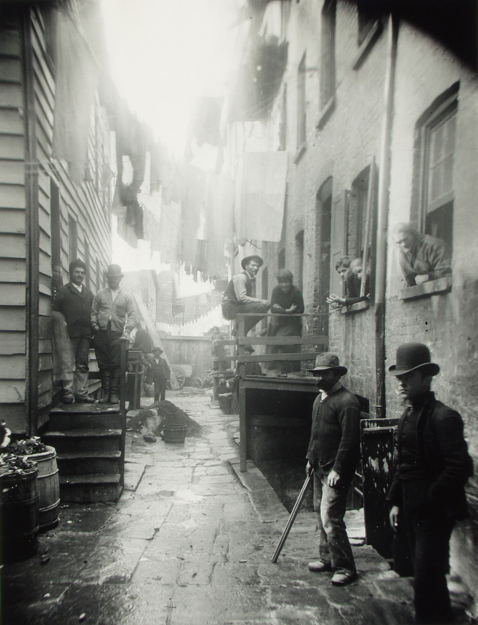 Bandit roost (59 Mulberry Street in New York City)